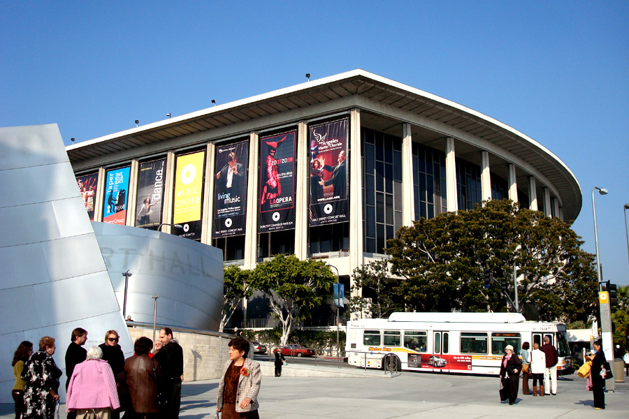 Dorothy Chandler Pavilion in December 2007. Left: Entrance to Walt Disney Concert Hall.